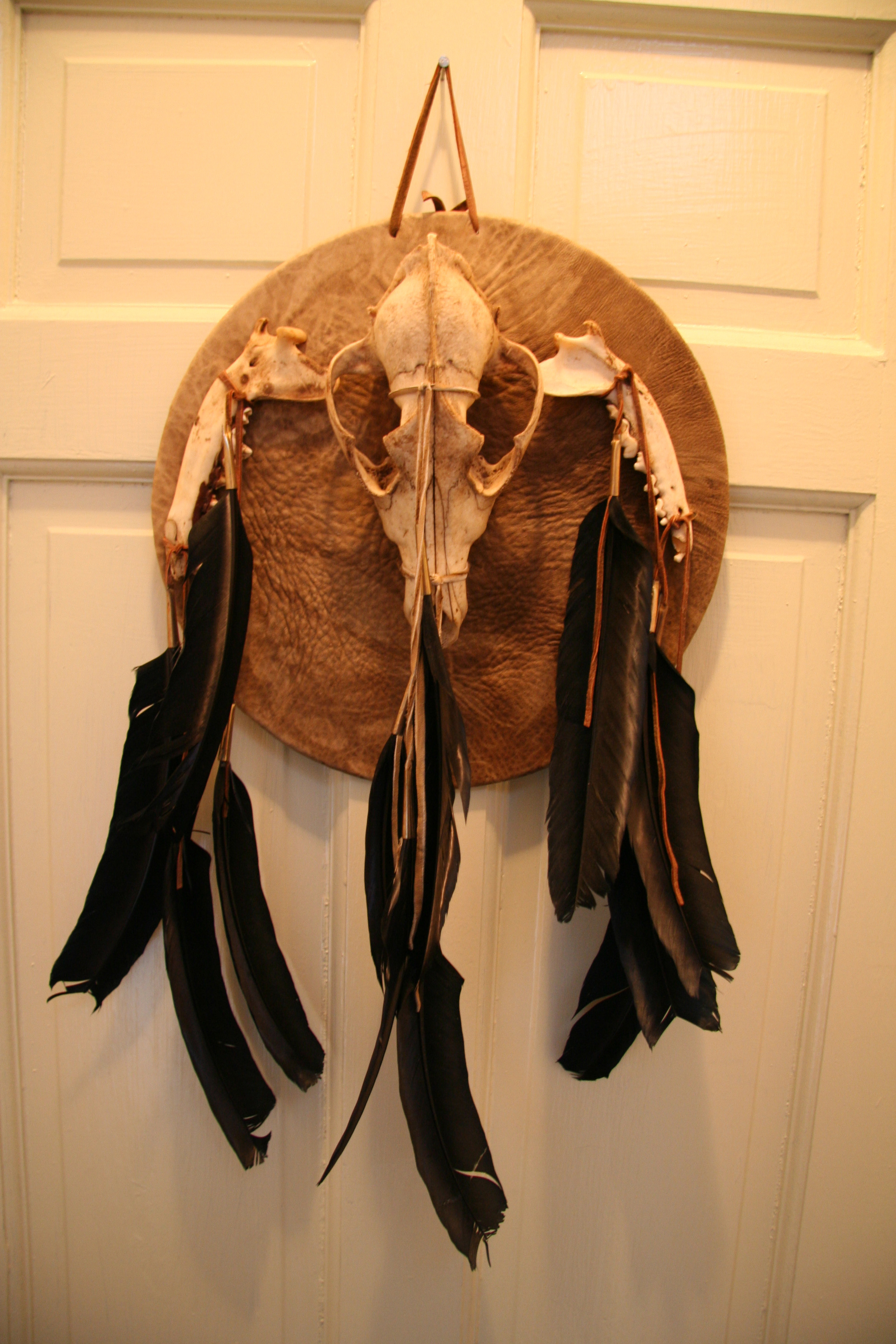 Spirit shield fashioned from coyote skull and crow feathers